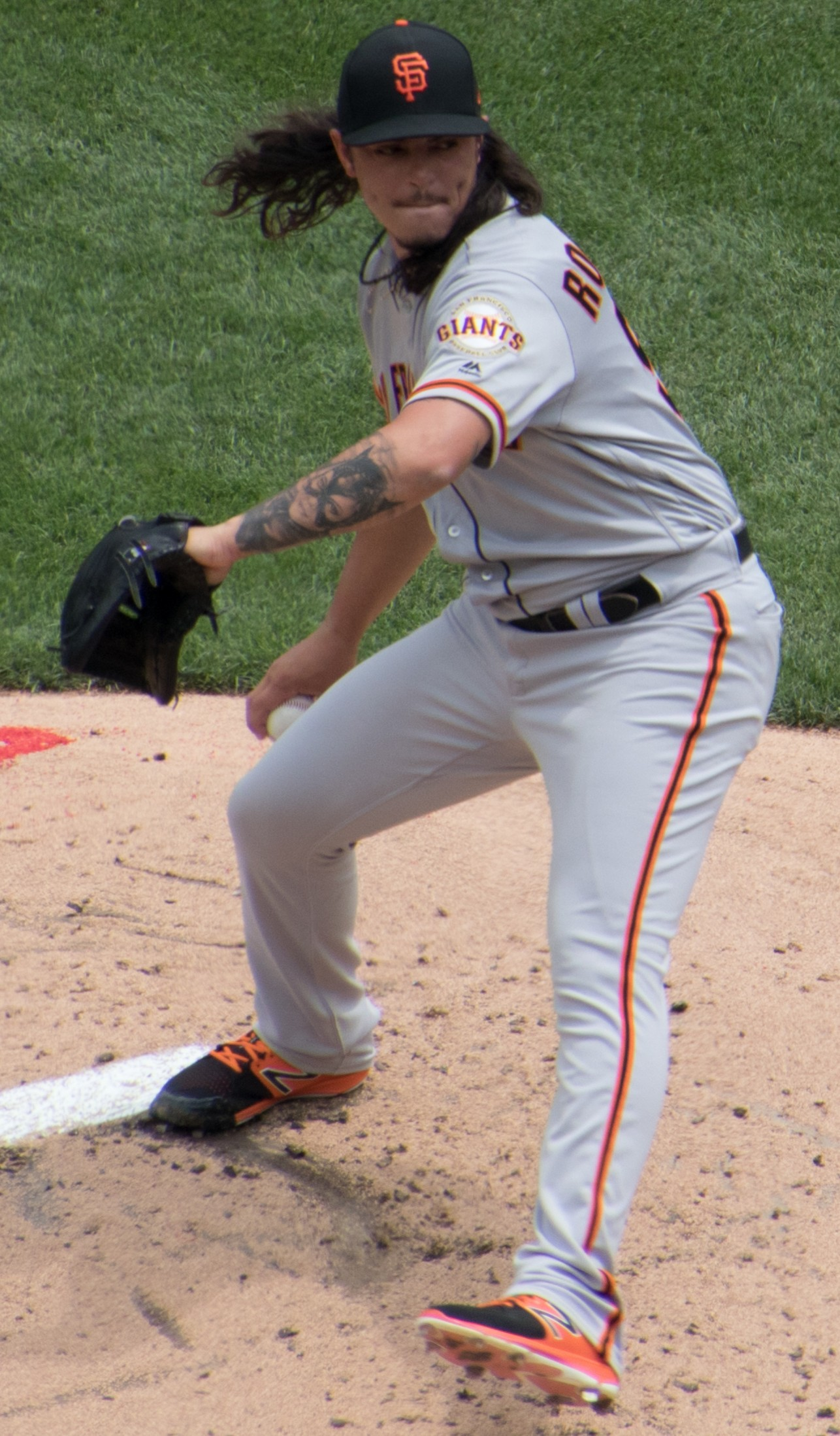 Dereck Rodríguez pitching in 2018